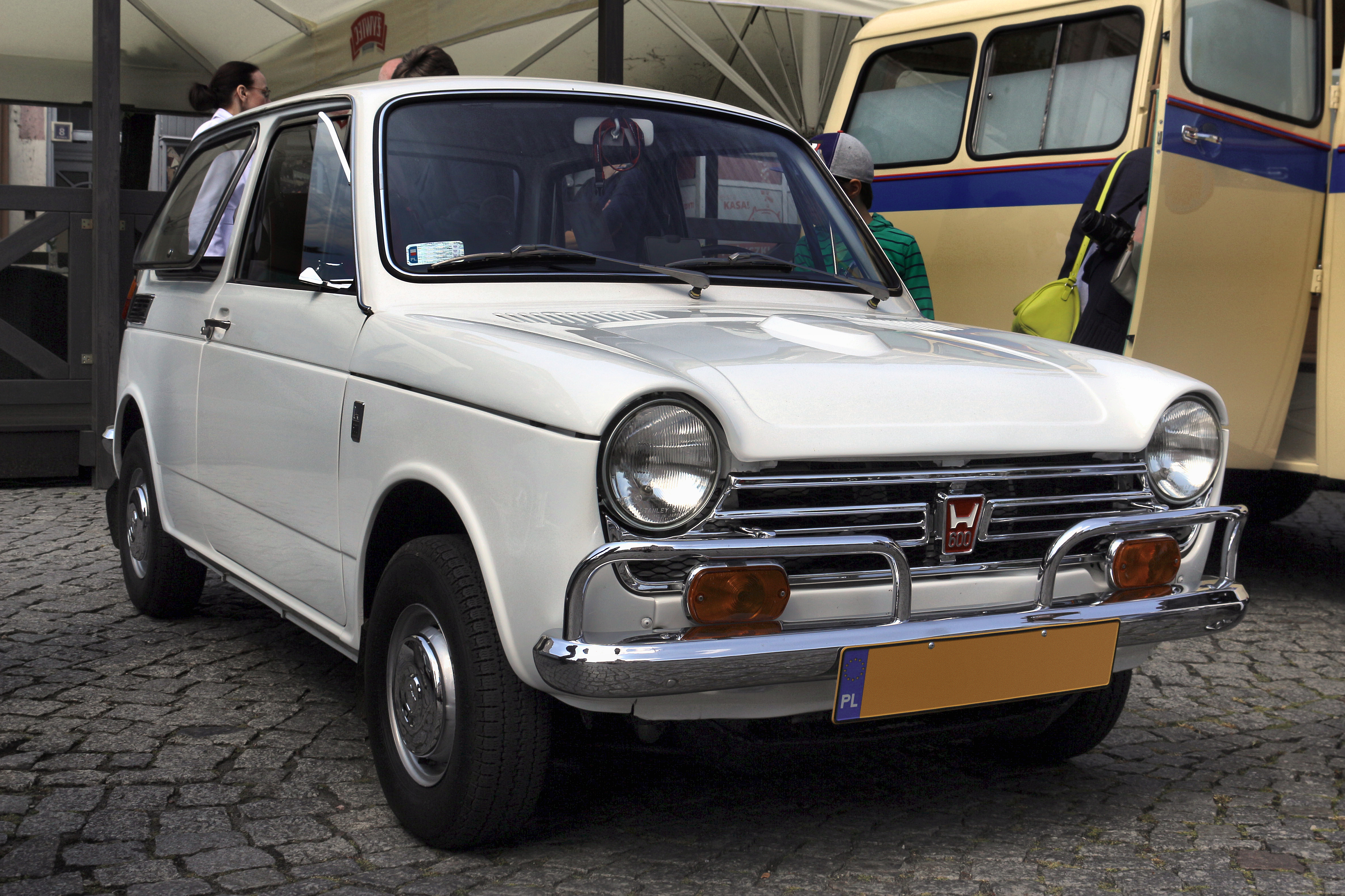 Honda N600 Touring